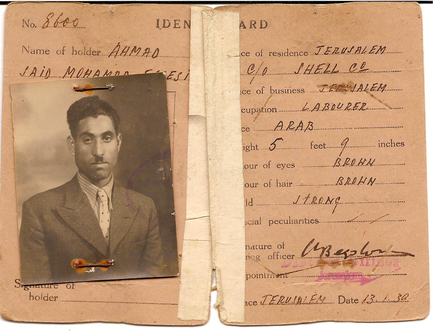 Copyright note: This photo has been released to the Public Domain, or it is licensed under Creative Commons or cc0, or it falls under the doctrine of Fair Use as of United States copyright law, or I have received written consent by the author, rights owner, licensed source, or otherwise authorized by source to republish photos without any limitations. Therefore, anyone can republish this photo anywhere else in the Internet or any other publication in accordance to the legal copyright status of the photo. Please contact me through flickrmail should you feel you retain legal copyright rights to this photo. This photo has been published exclusively for didactical and/or historical purposes, and disemination is not only allowed, but also encouraged. At the very least, you are free to copy/link this photo as long as you recognize the source. Please don't write me to ask further consent or inform about further use. TAGS palestine palestinian al-aqsa al-quds al-quods jerusalem nakba plight solidarity refugee acre west-bank gaza safad ramallah tiberias jaffa tulkarem haifa hebron beersheba al-ramla baysan zionist zionism usa aipac america war 1948 1956 1973 olp fatah arafat hamas peace united-nations middle-east syria siria lebanon iran olive castielli children child land israel israeli occupation pilgrims amnesty human-rights arab muslim islam islamic protest free freedom justice hijra exodus CC0 cc public_domain